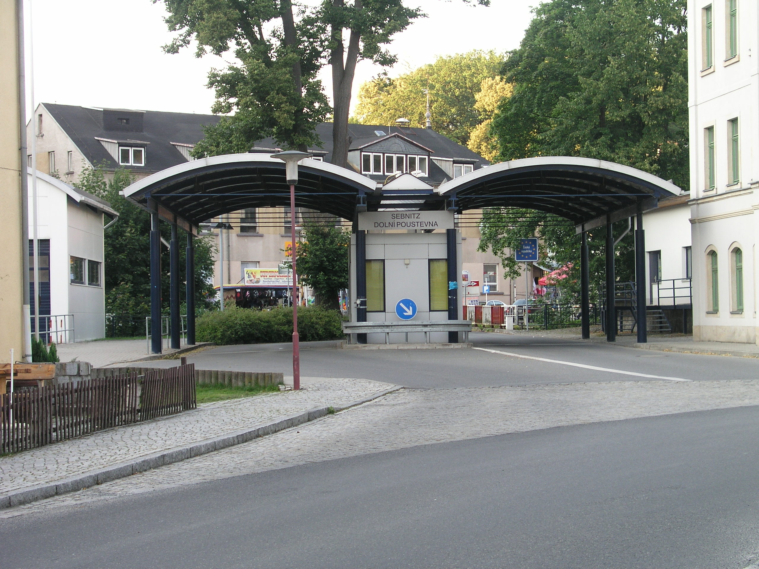 Border crossing point Dolní Poustevna (CZ)-Sebnitz (D) seen from German side